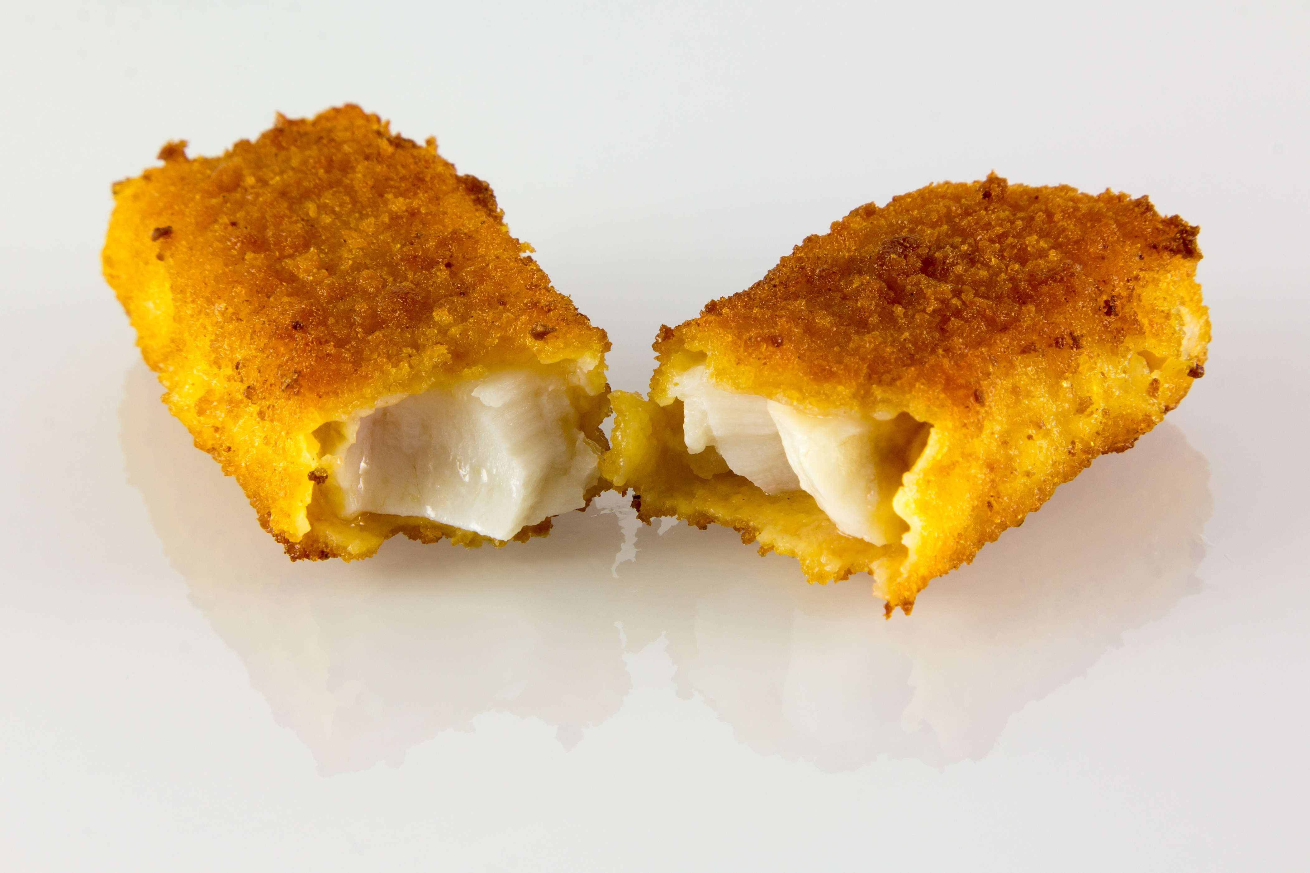 Fish-finger, fried and broken up